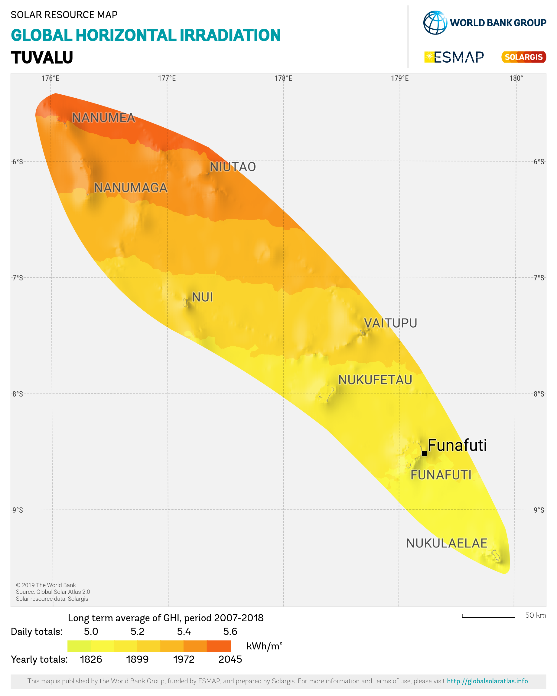 Global Horizontal Irradiation of Tuvalu